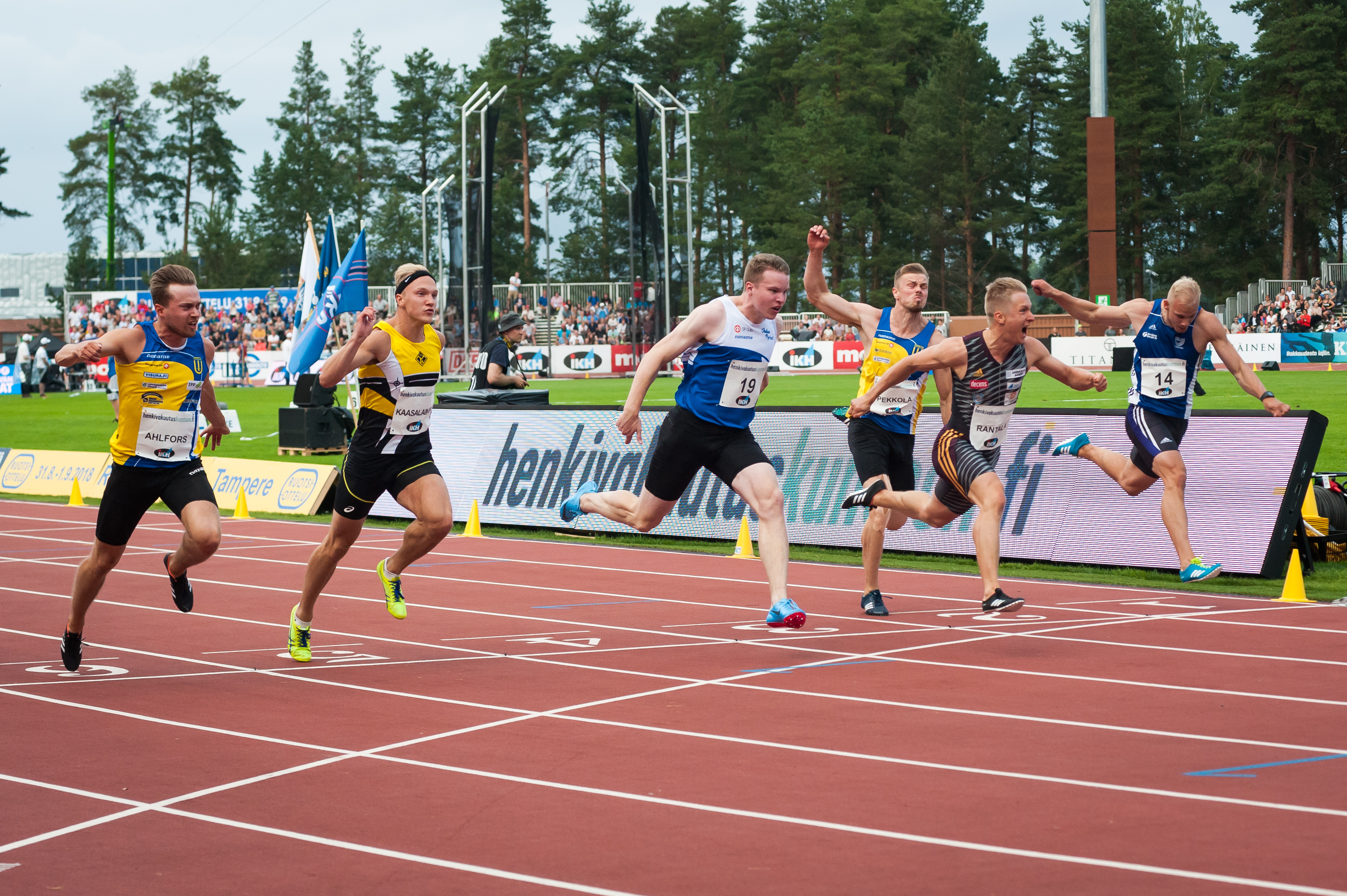 Men's 100 m final at the 2018 Kalevan Kisat, the Finnish championships in athletics, in Jyväskylä, Finland. From left to right: Otto Ahlfors, Viljami Kaasalainen, Samuel Purola, Eerikki Pekkola, Eetu Rantala, Aleksi Lehto